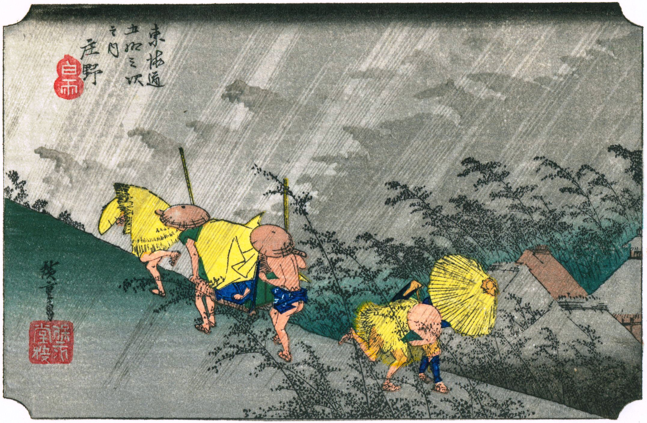 Numazu on the Tokaido, ukiyo-e prints by Hiroshige